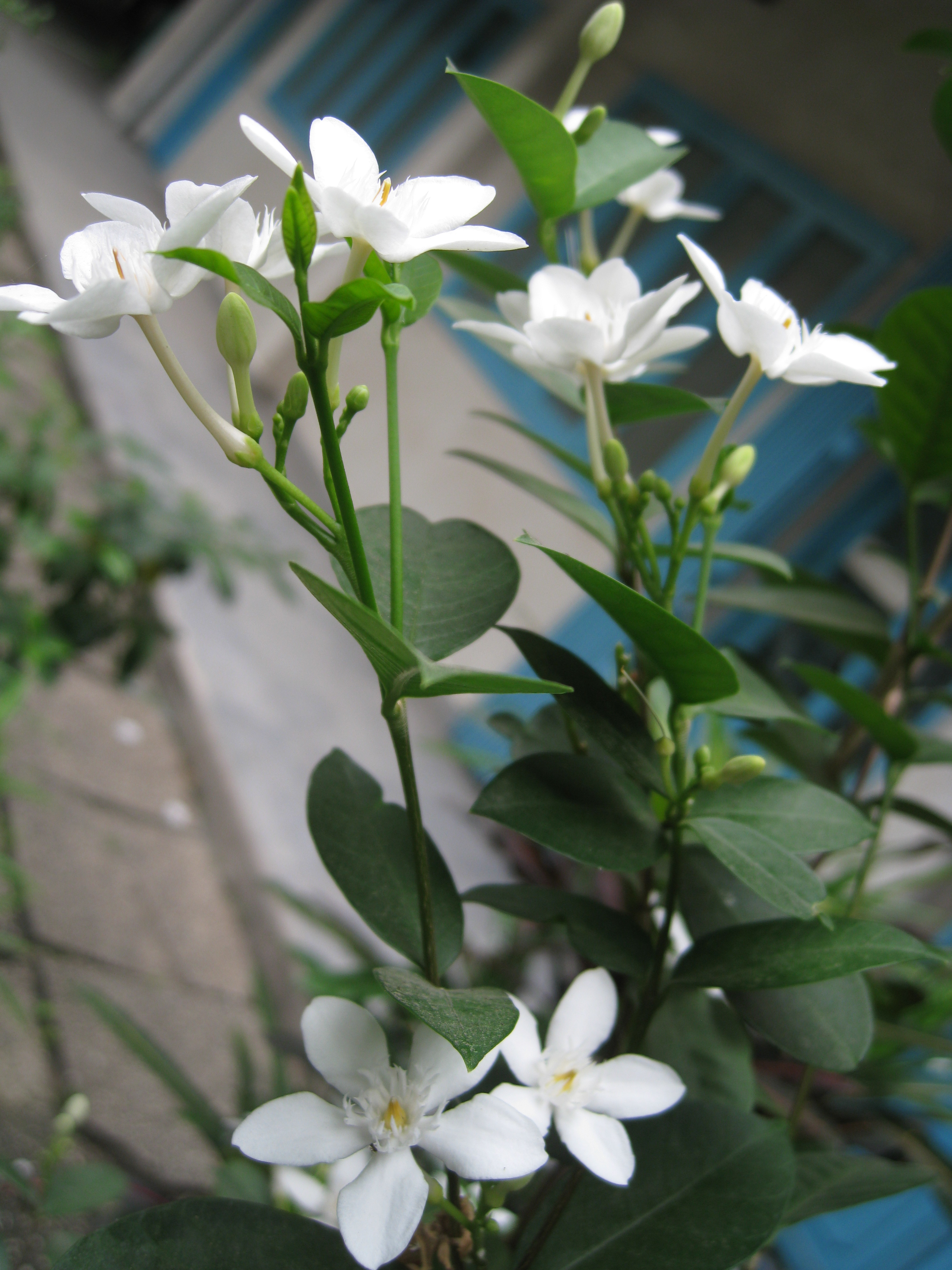 Wrightia antidysenterica